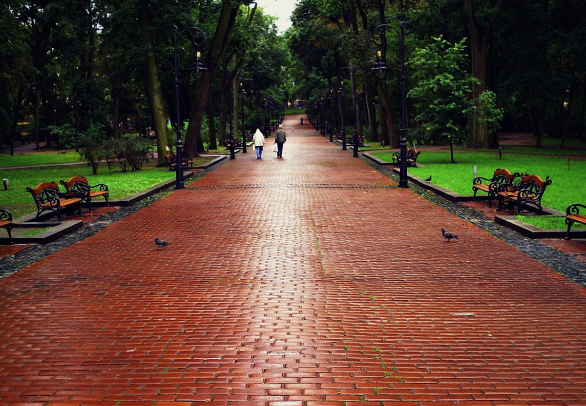 Park Ivan Franko in Lviv (Ukraine)